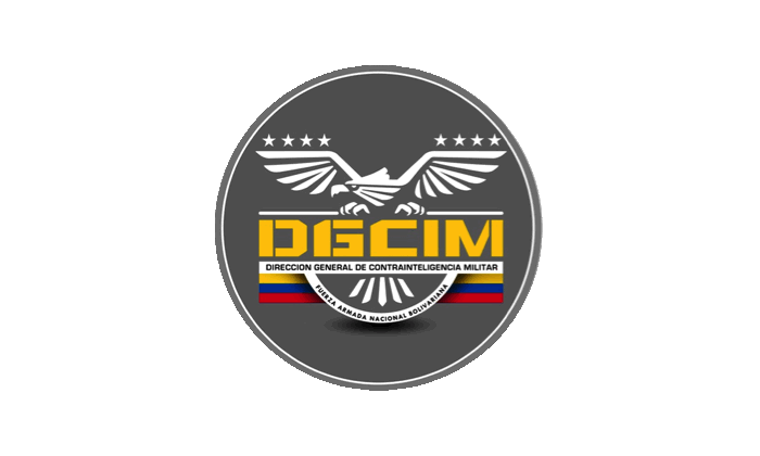 Flag of DGCIM, Venezuelan military counterintelligence